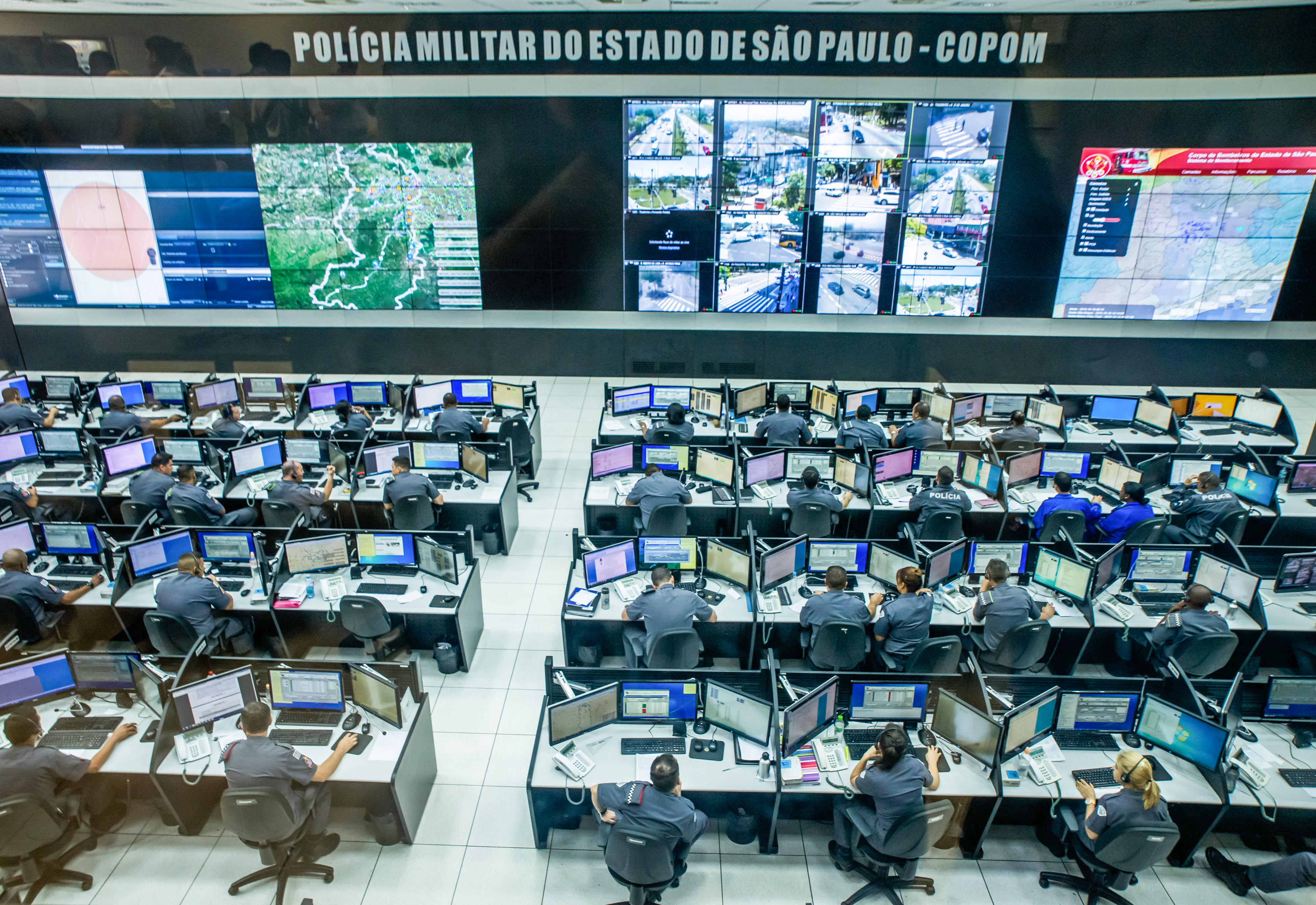 O governador do Estado de São Paulo, Dr. Geraldo Alckmin anunciou a expansão do Sistema Detecta na sede do COPOM - Centro de Operações da Polícia Militar. Local: São Paulo/SP. Data: 18/10/2016. Foto: Alexandre Carvalho/A2img